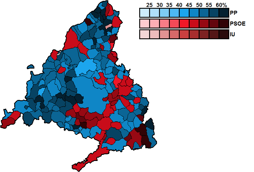 Most-voted party in Madrid municipalities, showing vote share obtained, in the Spanish general election, 2004.